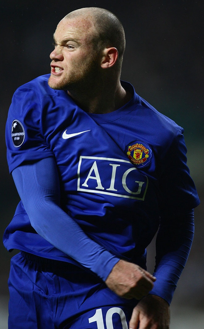 NOVEMBER 5, 2008 - Football : Wayne Rooney of Manchester United during the UEFA Champions League Group E match between Celtic and Manchester United at Celtic Park on November 5, 2008 in Glasgow, Scotland. (Photo by Tsutomu Takasu)